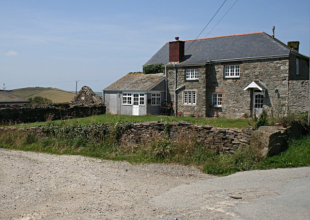 Trevelver. Behind the farmhouse in the distance is Cant Hill.